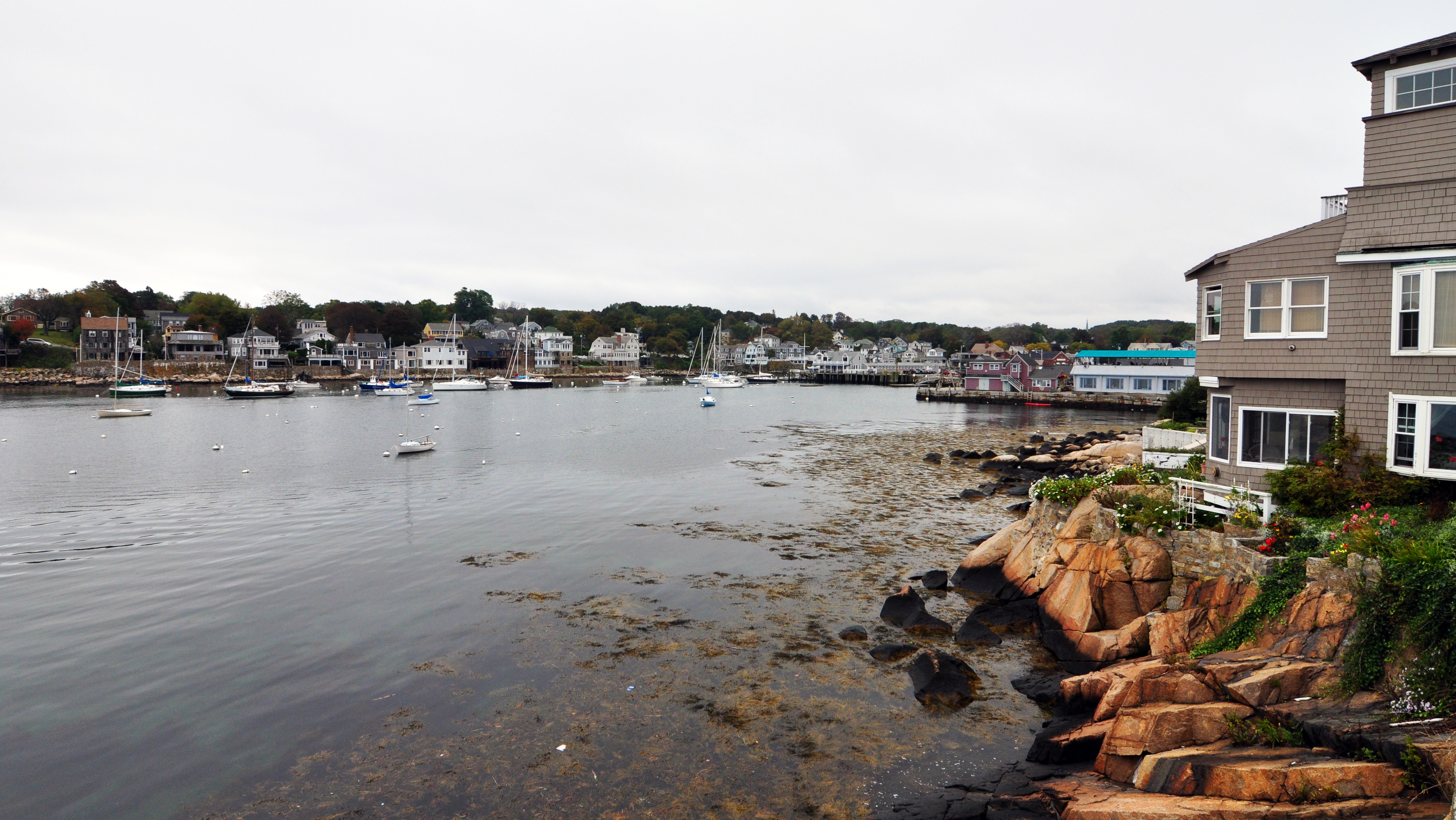 Panorama from near the tip of Bearskin Neck in Rockport, Massachusetts